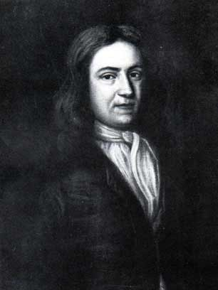 Adolphus Philipse (1665-1749), son of Frederick Philipse, first Lord of Philipse Manor